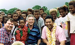 New Zealand politicians from left Ian Revell, Max Bradford, and Taito Phillip Field